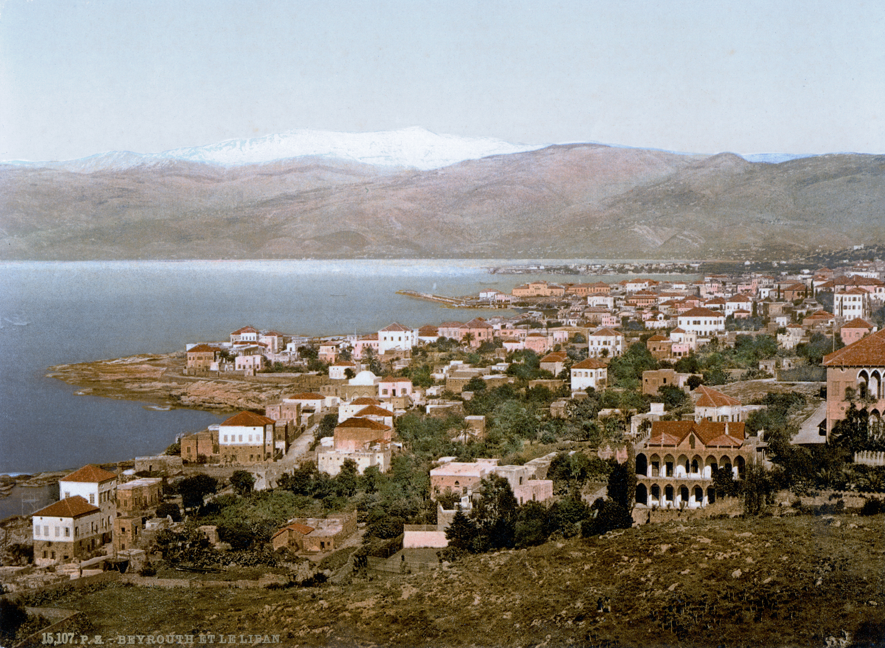 Photochrom Zurich - General view, with Lebanon in the distance, Beyrout, Holy Land, (i.e., Beirut, Lebanon)